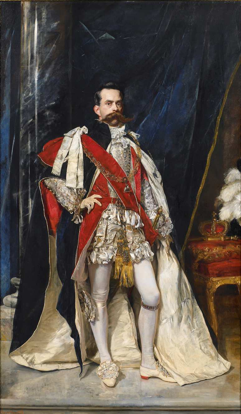 King Umberto I of Italy attired with the Order of the Garter